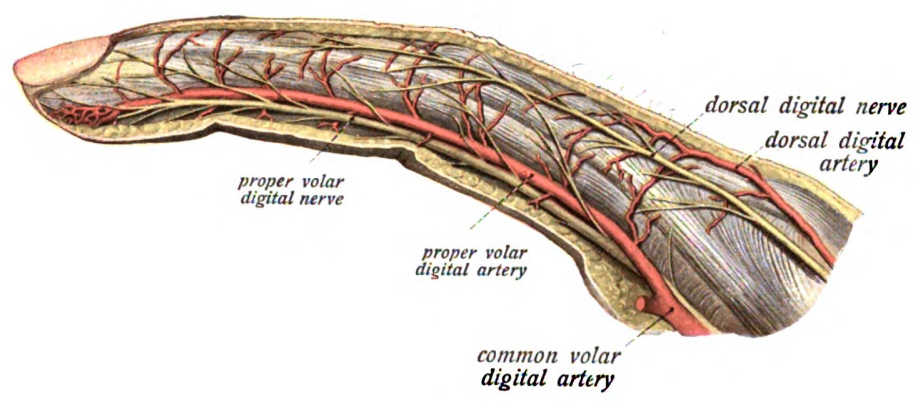 An anatomical illustration from Sobotta's Human Anatomy 1909